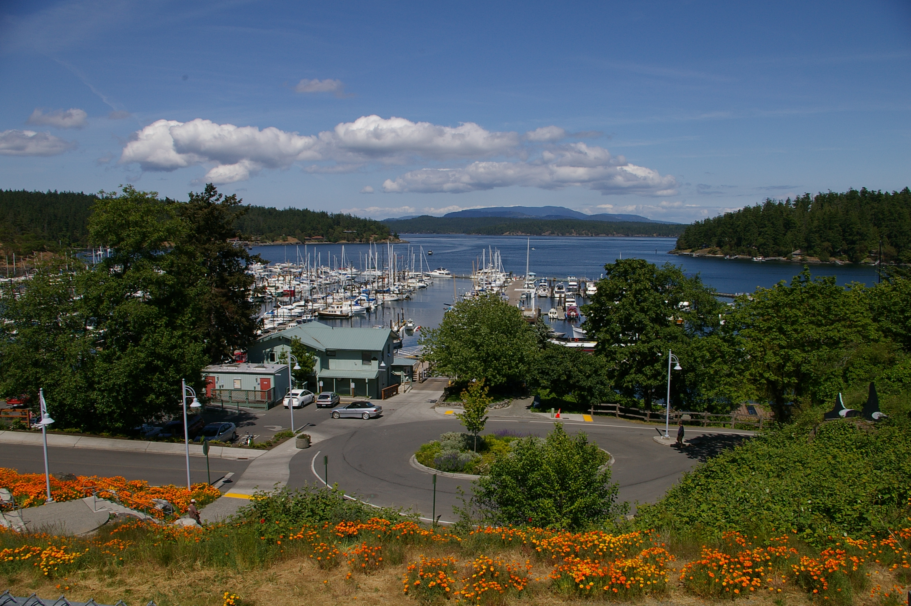 Friday Harbor from VFW overlook